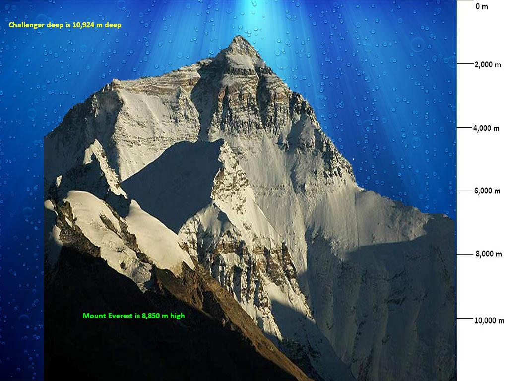 Size comparison of the Challenger Deep with Mount Everest. The location is so deep that Mt Everest could be placed within it and still have 1.6 km (1 mile) of water above it. It is 6.8 miles deep.